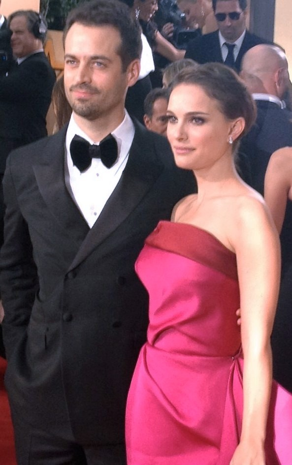 Actress Natalie Portman attends at Golden Globes ceremony in 2012.